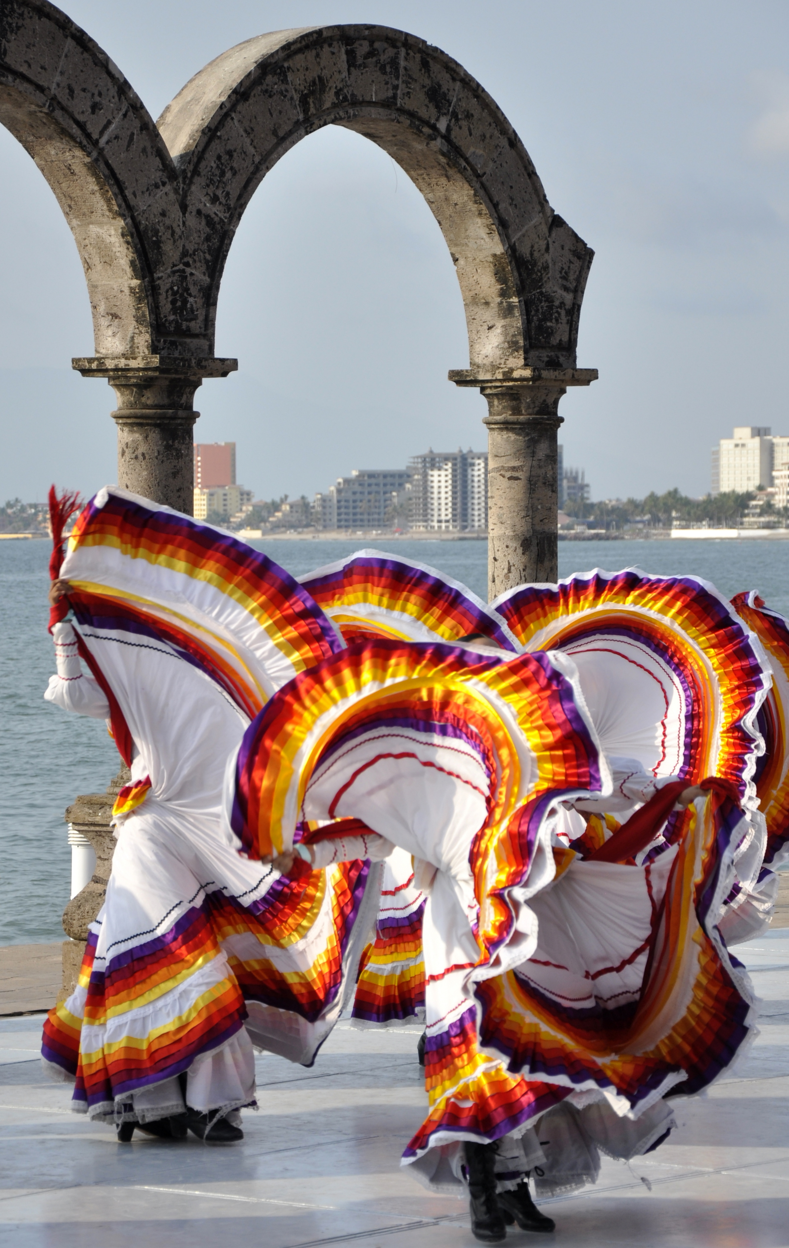 Dancers of the Grupo Folcorico Vallarata Azteca dancing the traditional Jalisco skirt dance in Puerto Vallarta.